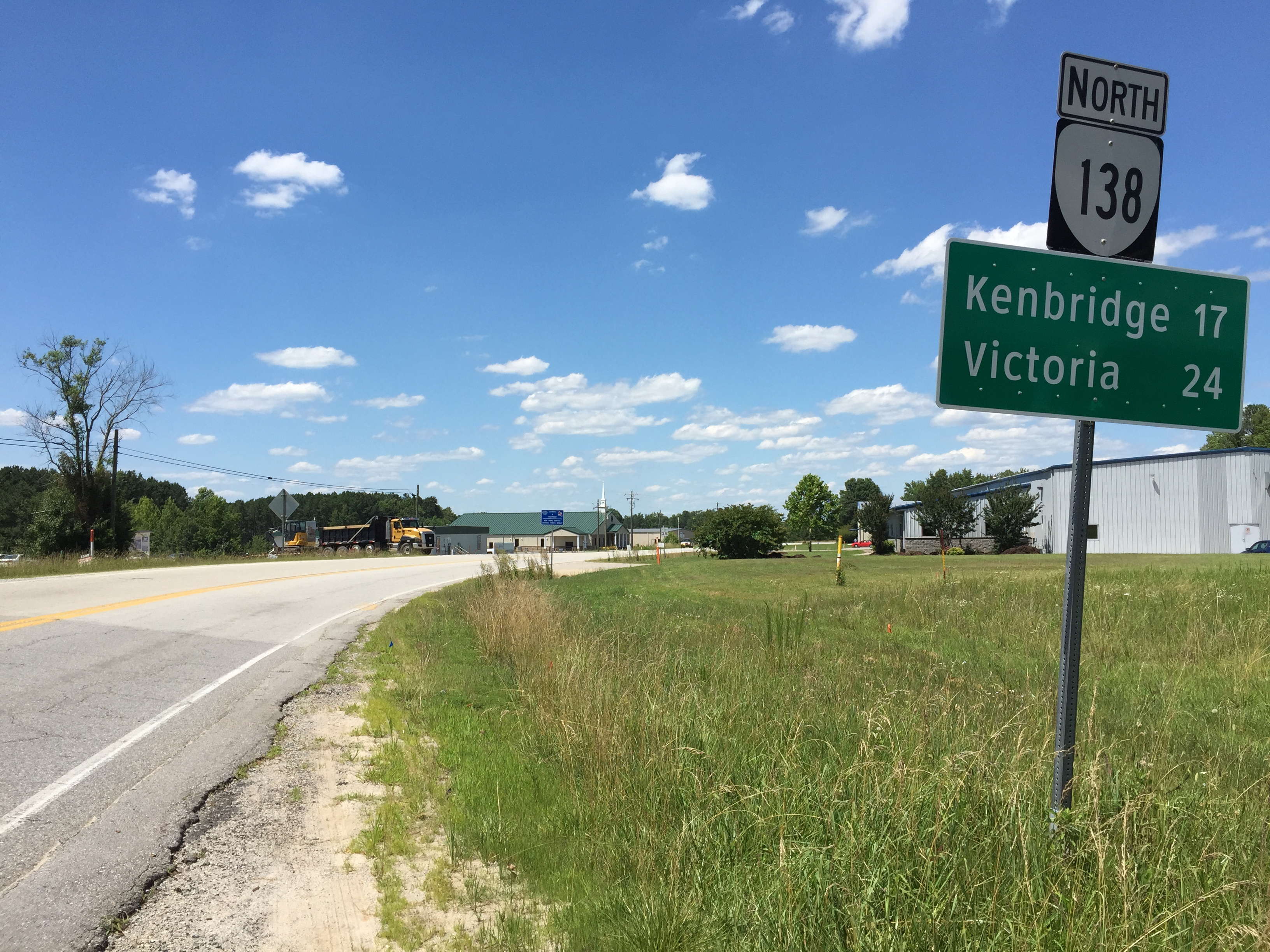 View north along Virginia State Route 138 (Union Mill Road) at U.S. Route 1 (Mecklenburg Avenue) in South Hill, Mecklenburg County, Virginia